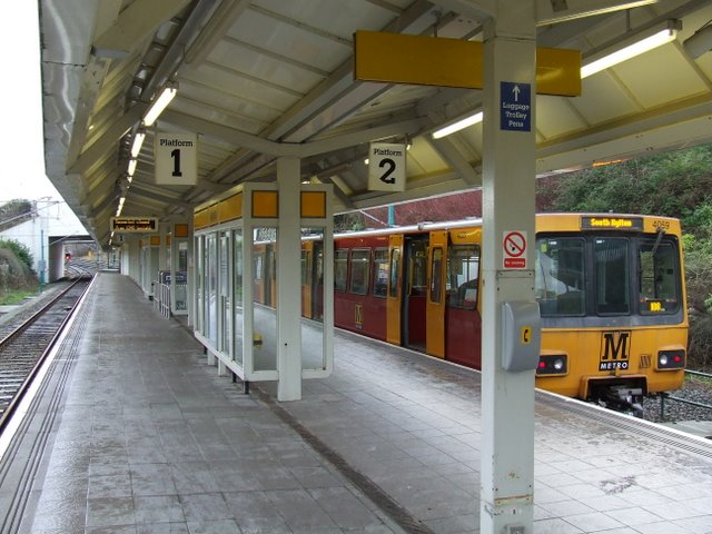 Airport station on the Tyne and Wear Metro at Newcastle Airport. The view south west from Platform 1 across to Platform 2, where Metrocar No. 4059 is loading for a journey to South Hylton.